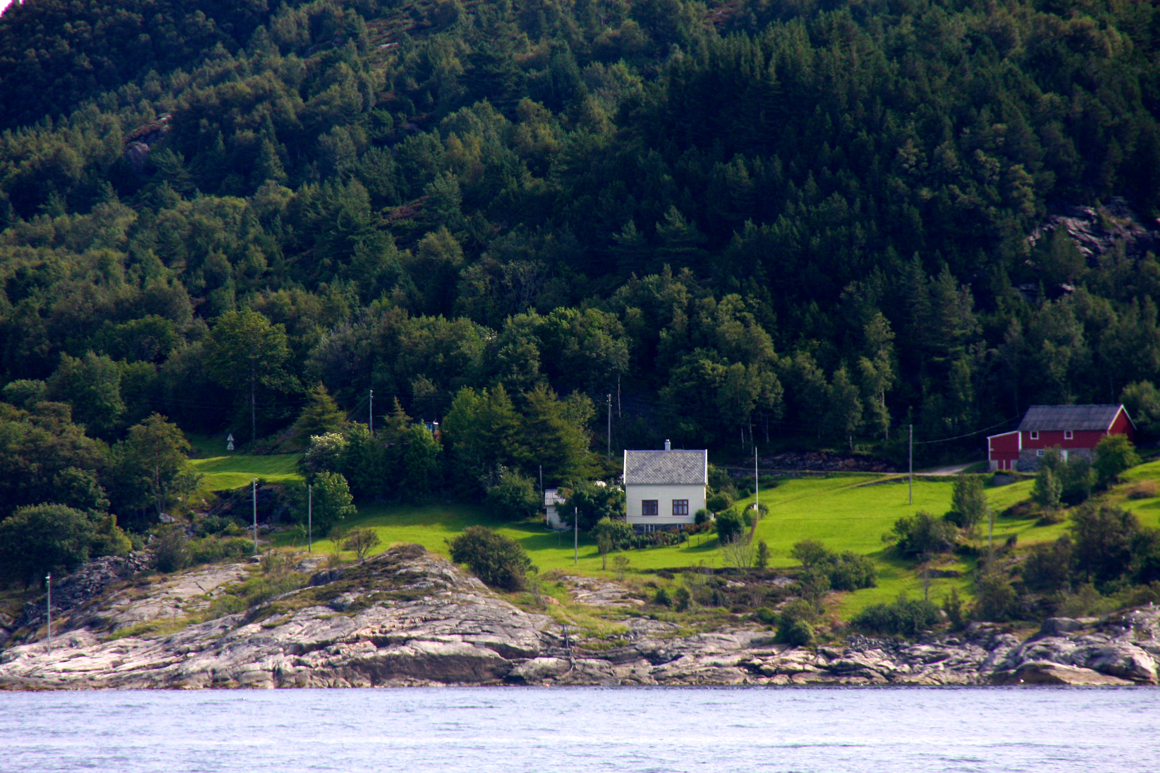 Rise (Gulen) in Gulen municipality, Norway.